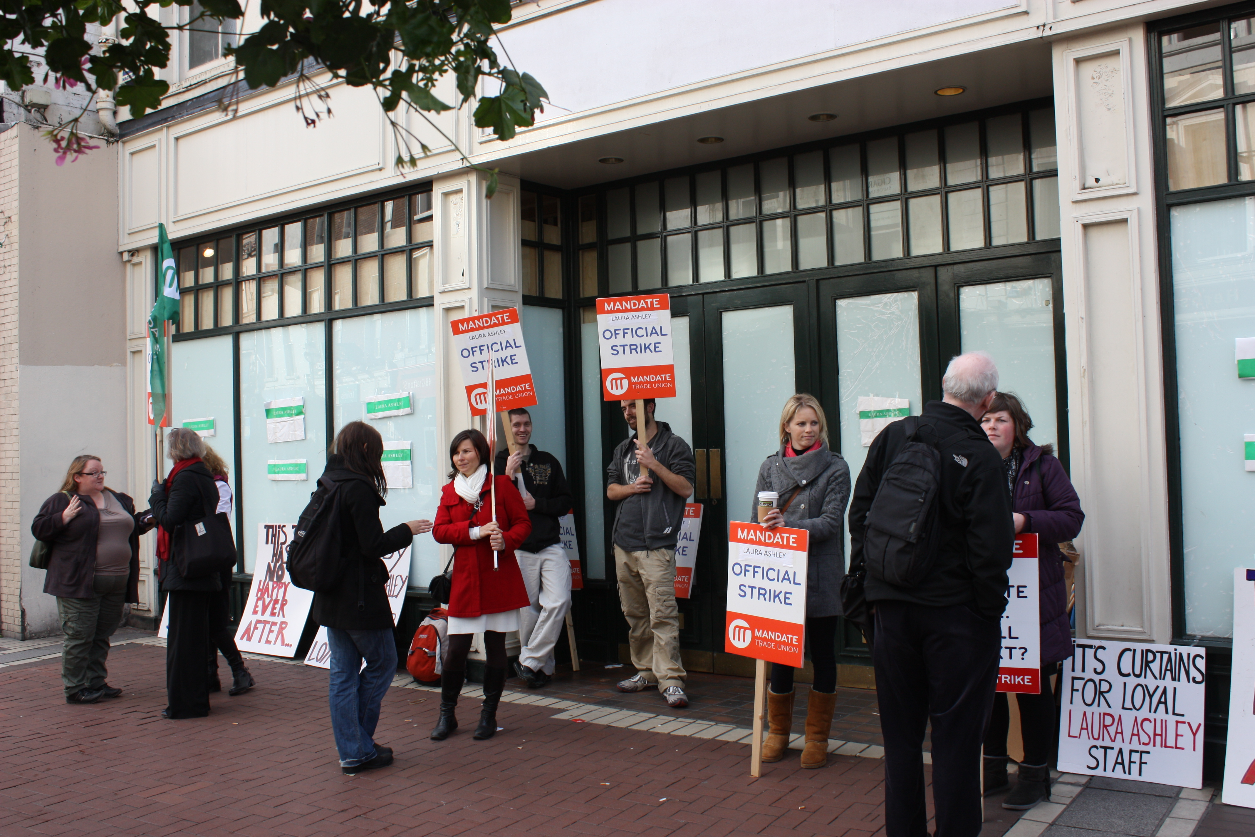 Picketing Laura Ashley shop, Grafton Street, Dublin, Republic of Ireland, October 2010